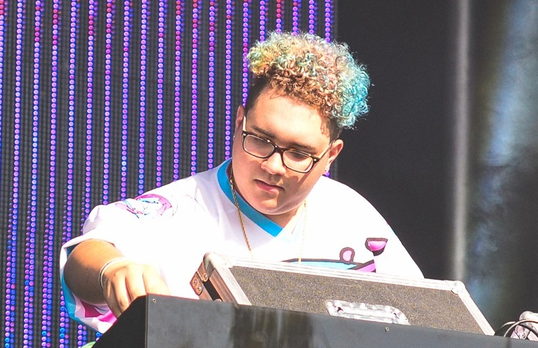 Slushii performing at the Mad Decent Block Party in Fort York Garrison Commons on August 19th, 2016